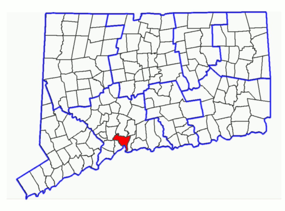 Subject: Map of Connecticut Townships with New Haven highlighted. Derived from sub-county SVG map of Connecticut at Libre Map Project using Adobe SVG viewer and Gimp 2.2.1.3